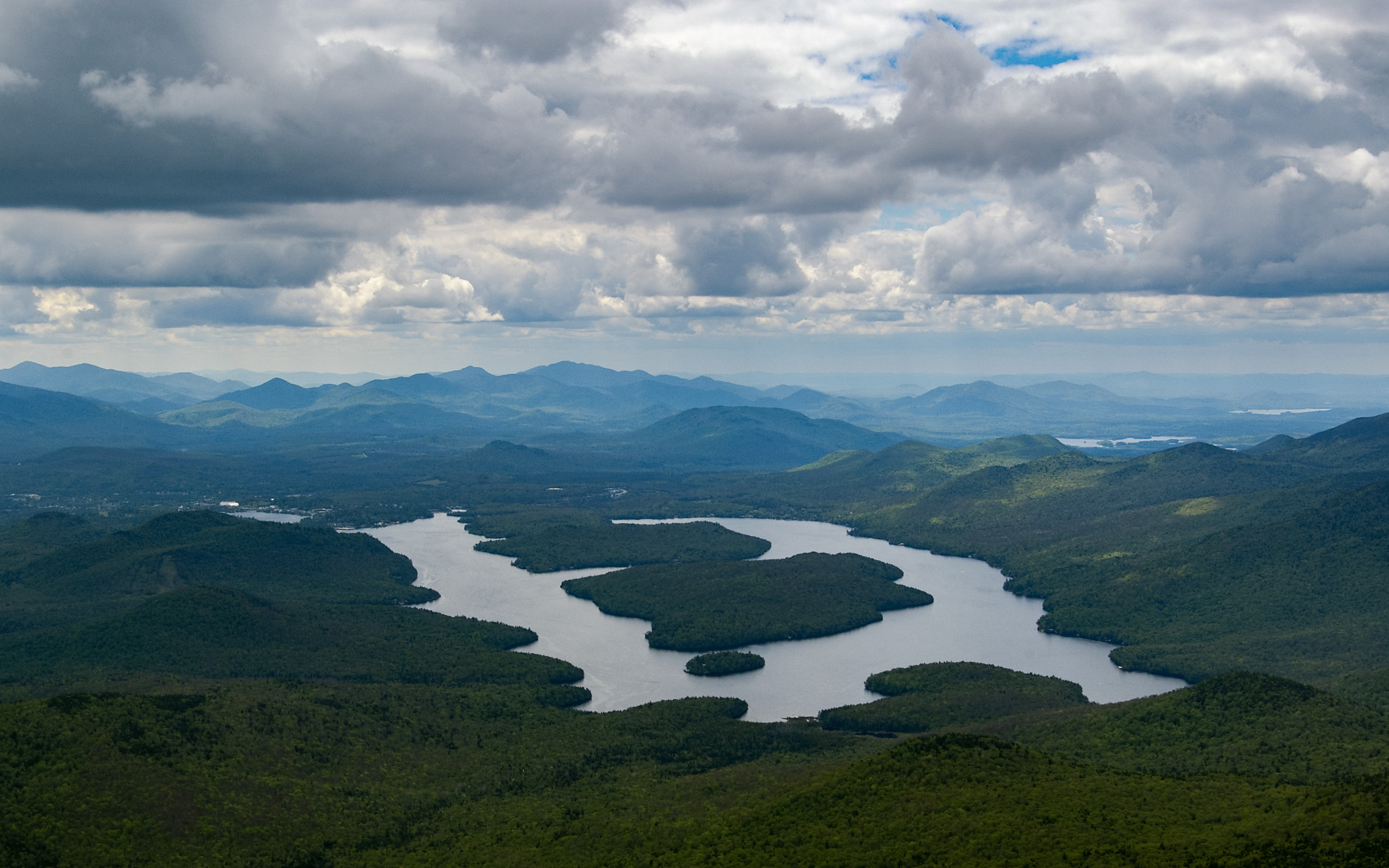 Lake Placid lake seen from the top of Whiteface Mountain in Wilmington